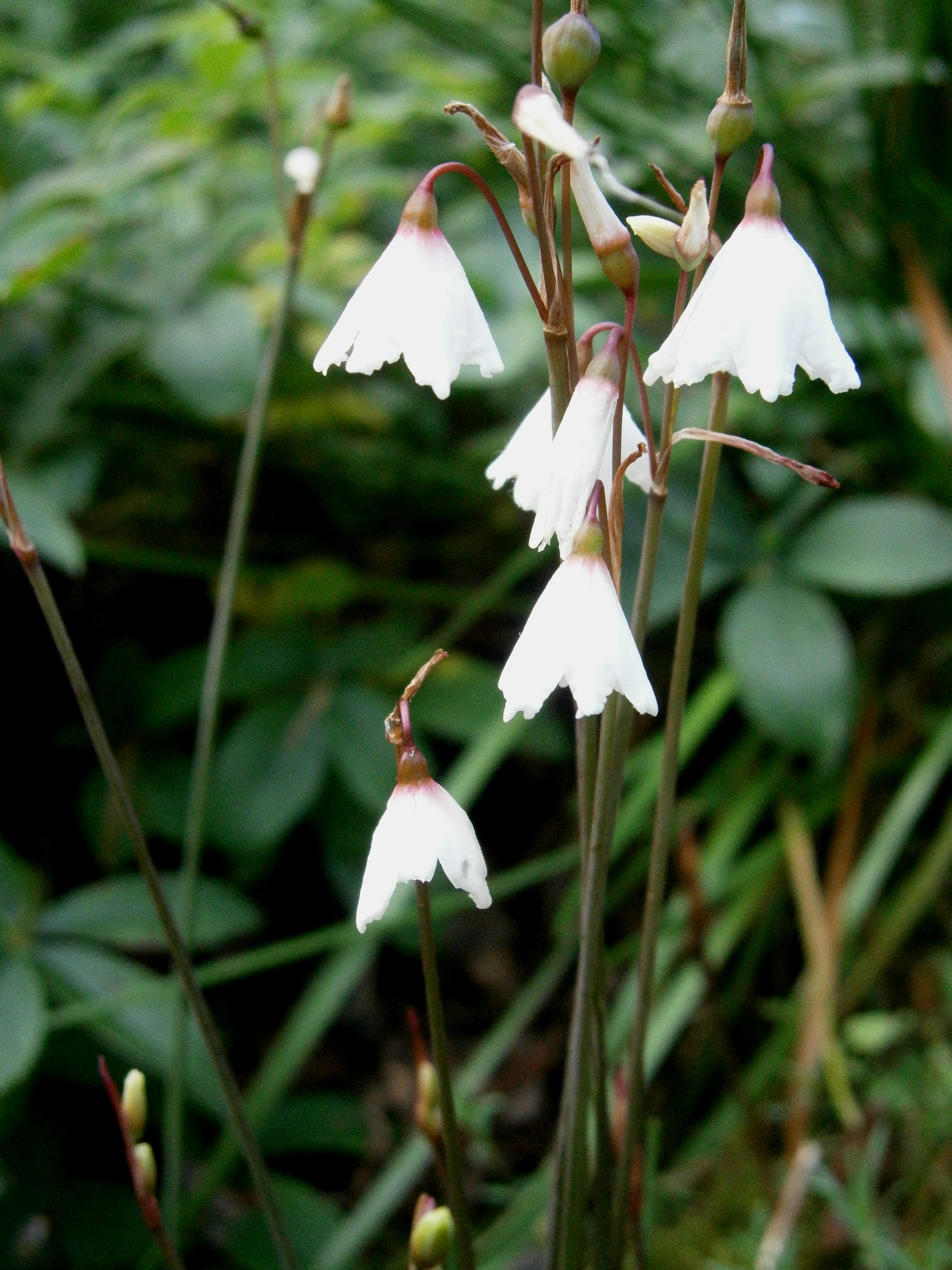 Acis autumnalis group